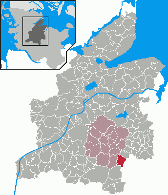 Locator maps of municipalities in Schleswig-Holstein - District Rendsburg-Eckernförde